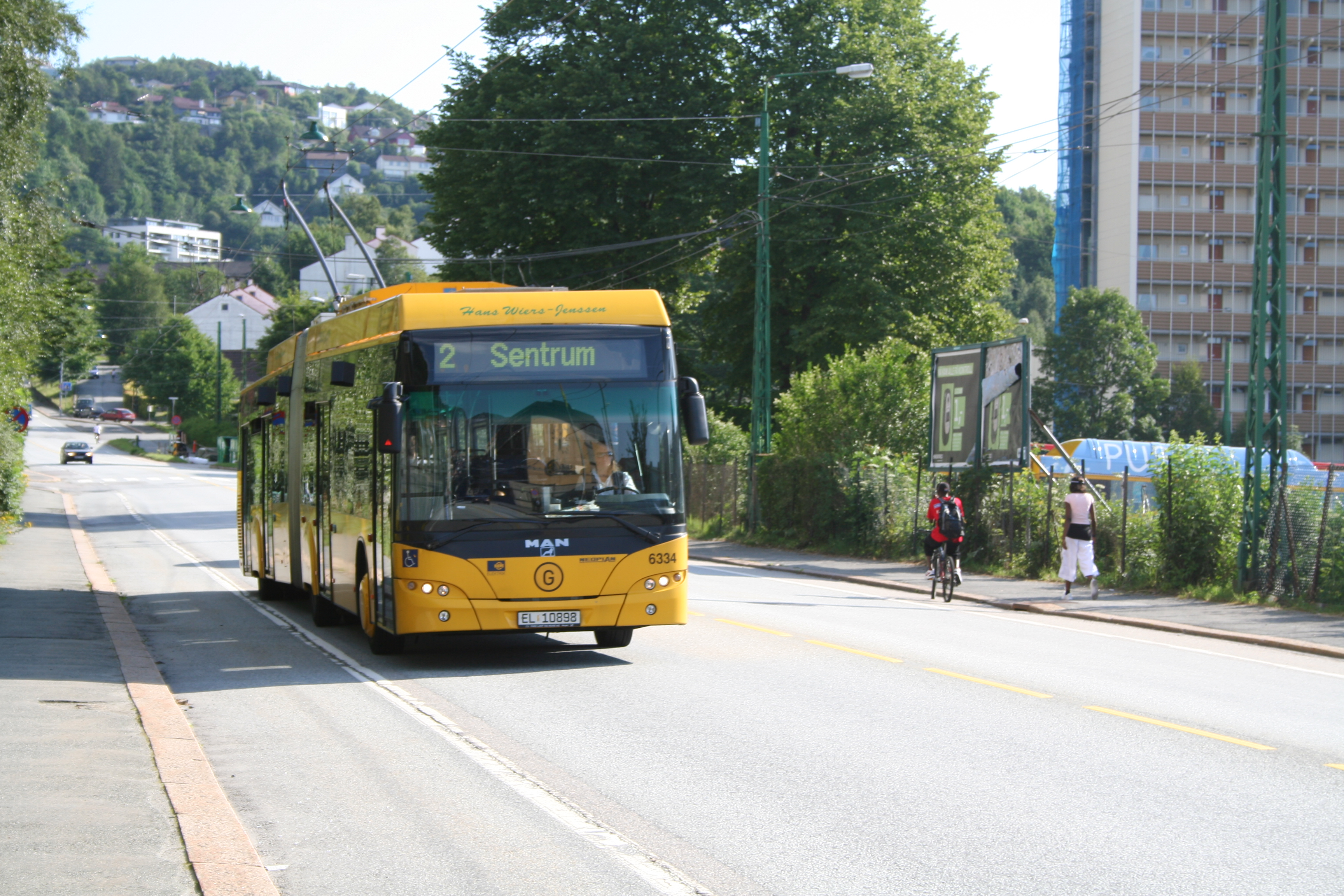 A trolleybus leaving a stop by Gaia Trafikk's headquarters in Bergen, Norway.